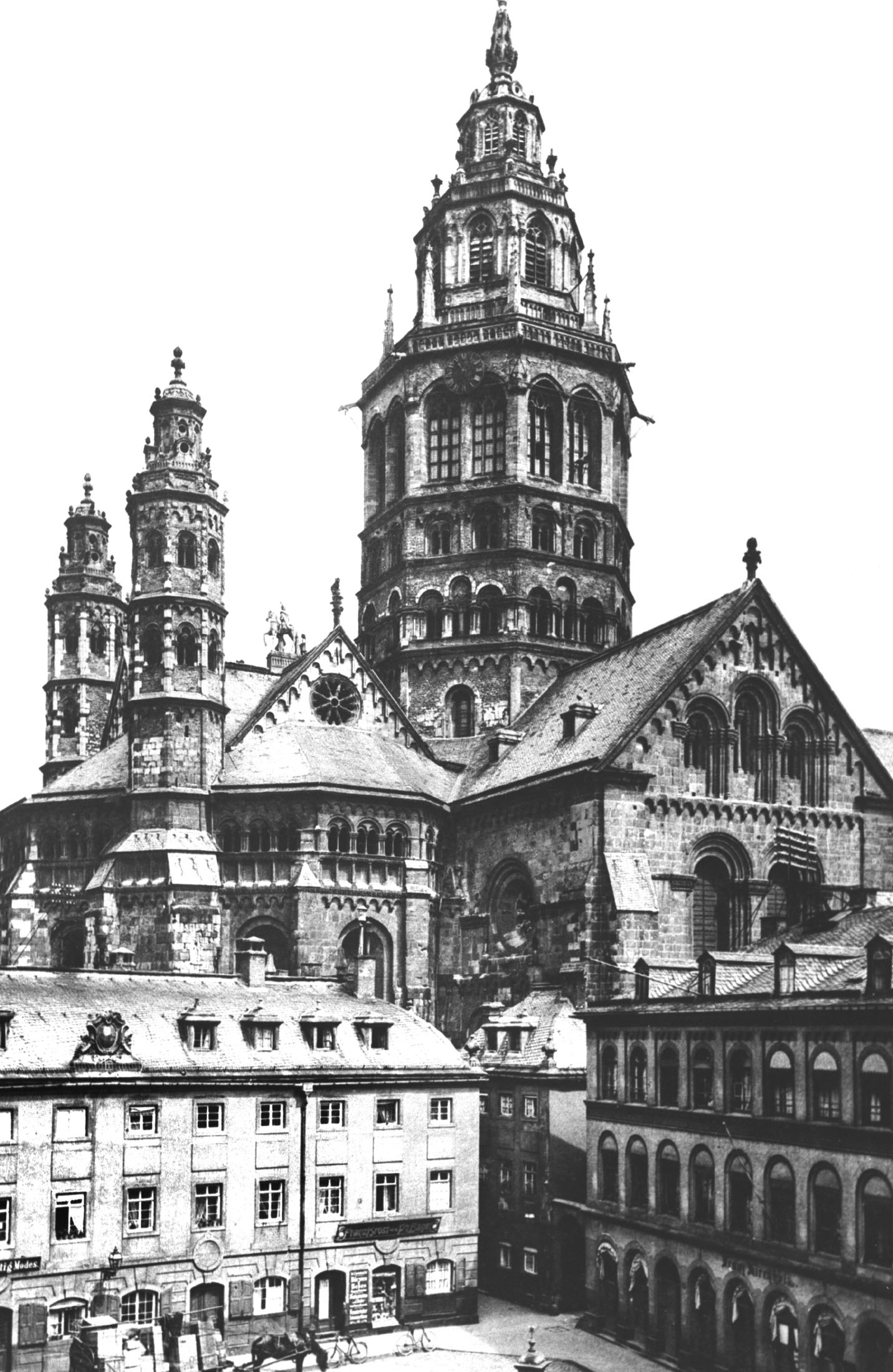 The Cathedral of Mainz 1890-1900